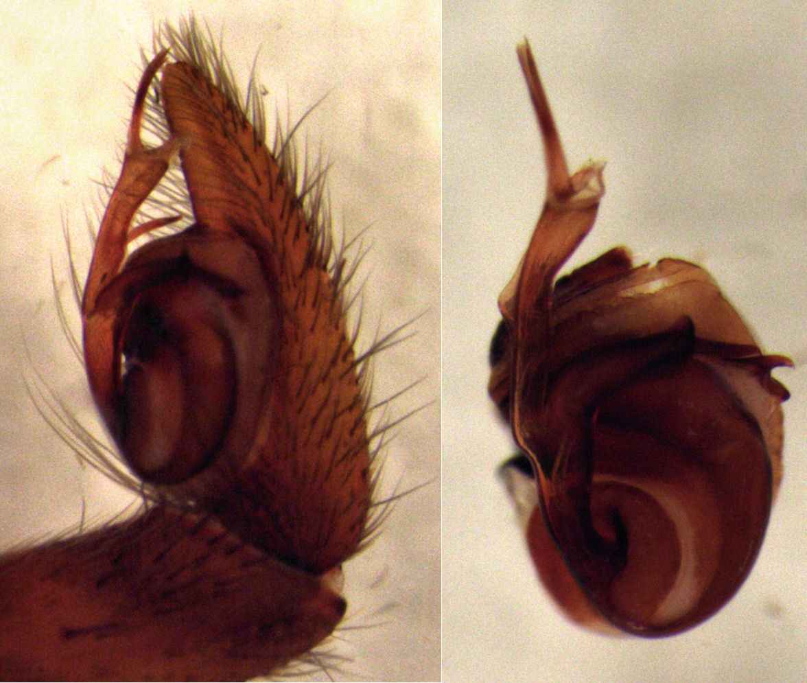 Gradungula sorenseni (topotype, male palp)